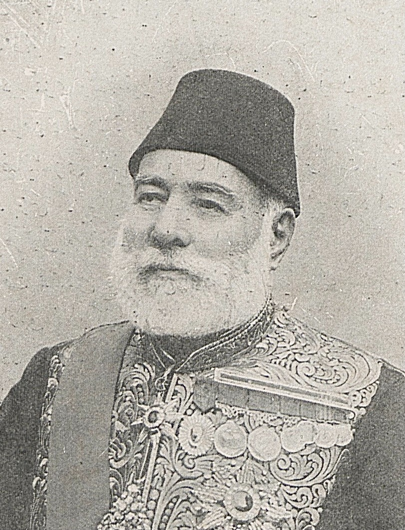 Abdurrahman Nureddin Pasha (1833-1912) Grand Vizier of the Ottoman Empire